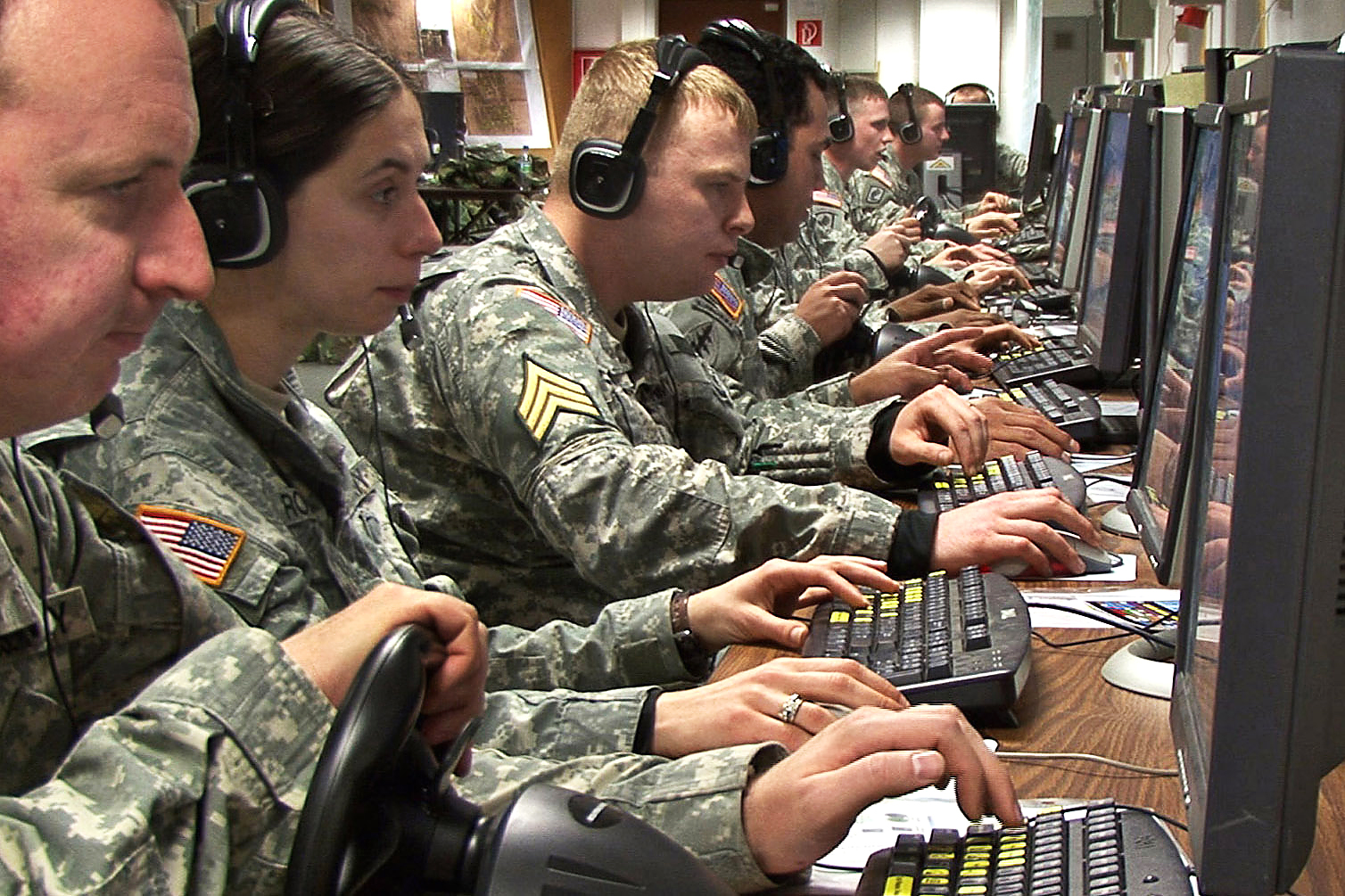 A squad of soldiers learn communication and decision-making skills during virtual missions at the Grafenwoehr Training Area, Germany, as part of the 7th Army NCO Academy Warrior Leaders Course, May 26, 2009. U.S. Army photo by Christian Marquardt See more at Army.mil